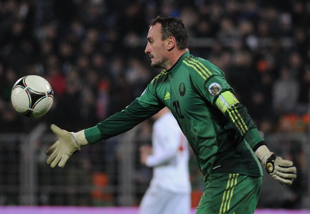 Belarusian football player Syarhey Vyeramko (Сяргей Верамко) during 2014 World Cup qualifier against Spain